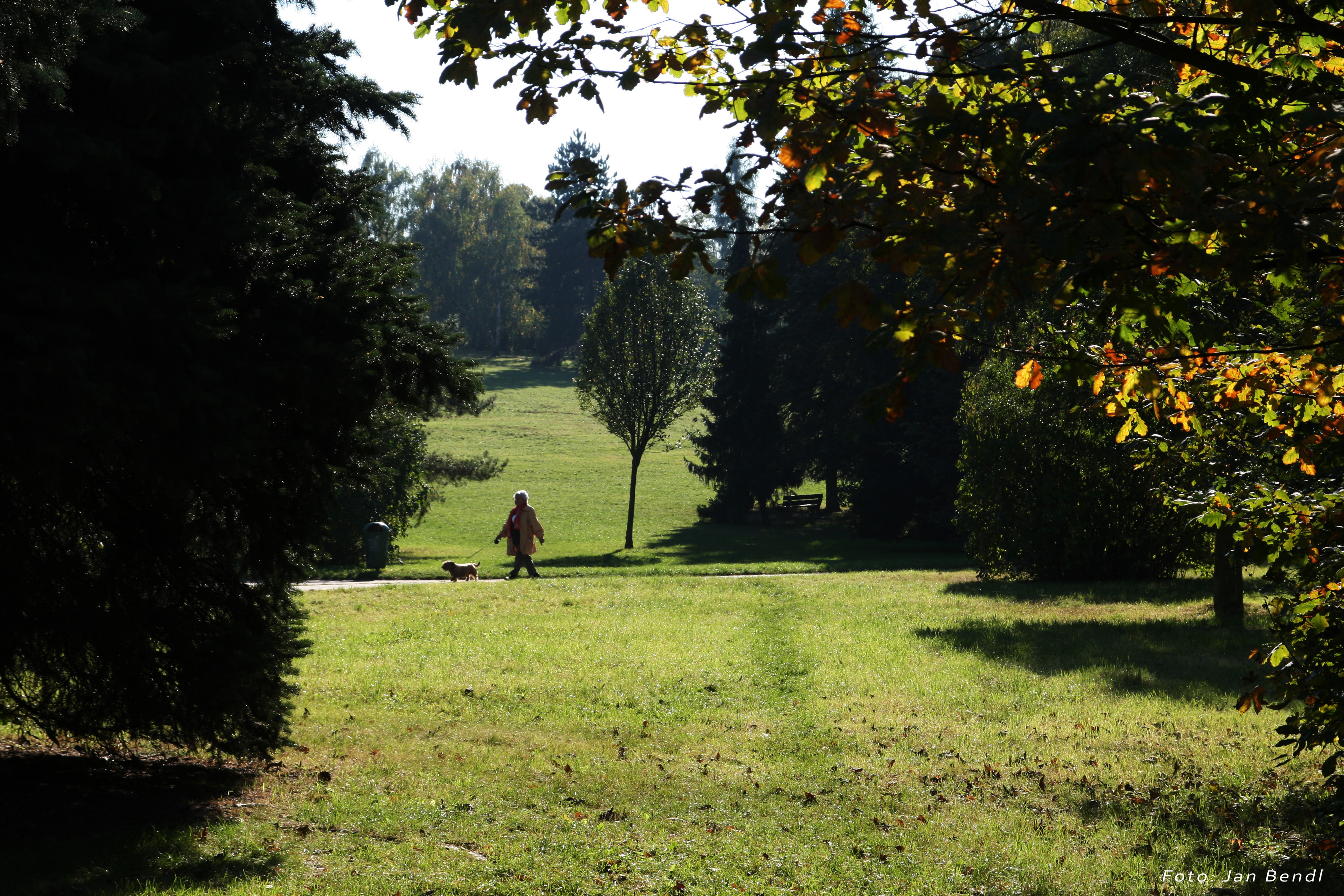 Natural monument Podolský profil in Prague, Czech Republic